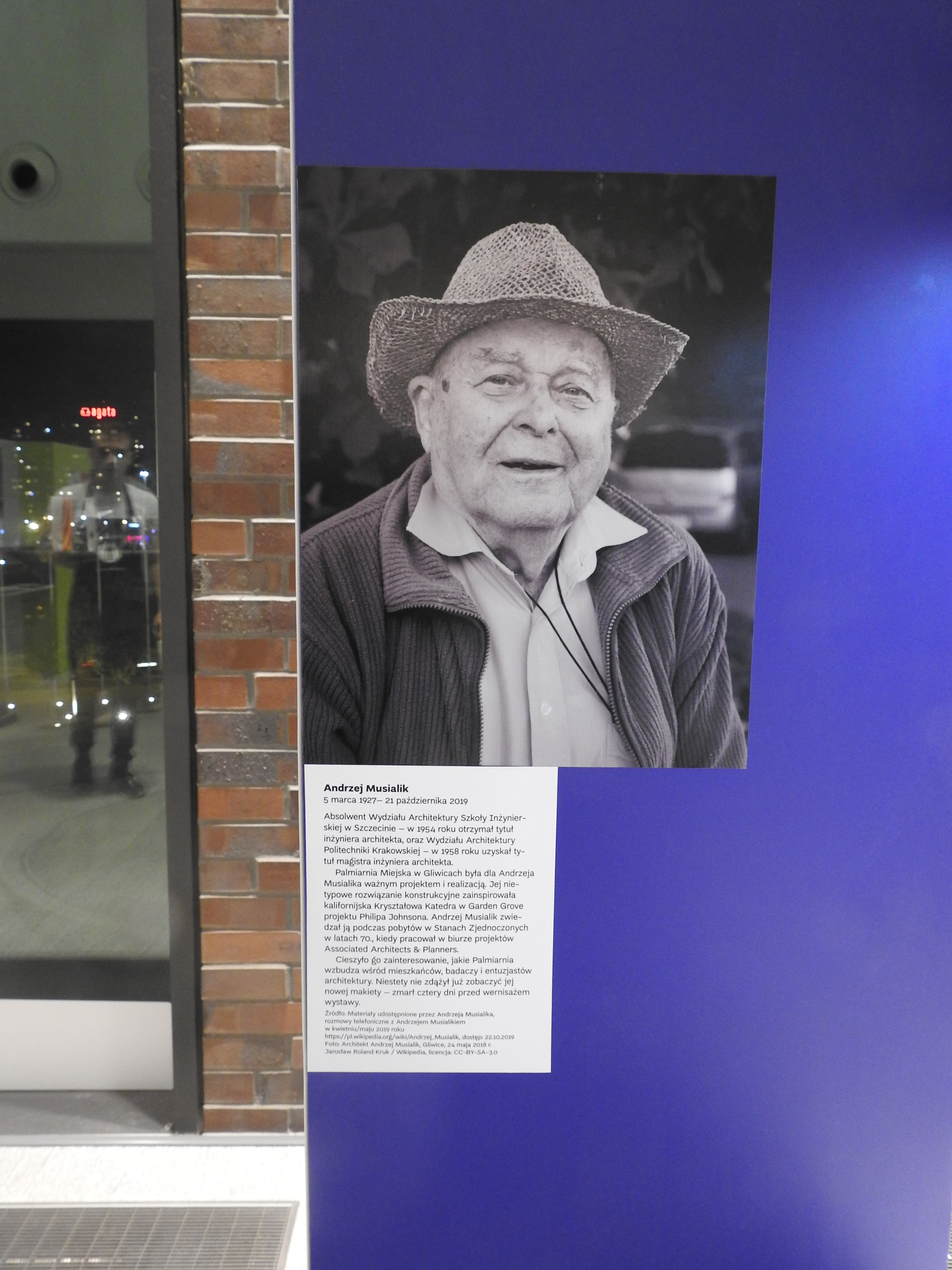 Biography of Andrzej Musialik (05.03.1927-21.10.2019) - Exhibition "100 years of Polish architecture" National Institute of Architecture and Urban Planning - Katowice, NOSPR, 25.10-15.12.2019